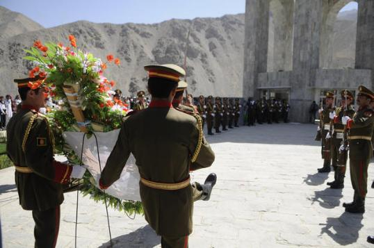 Afghan National Army members participate in the Massoud Day celebration in Panjshir, Afghanistan, Sept. 12, 2010. The celebration is in honor of Ahmad Shah Massoud, who was a Kabul University engineering student turned military leader who played a leading role in driving the Soviet army out of Afghanistan and led the resistance against the Taliban regime. Massoud was assassinated on Sept. 9, 2001, two days before 9/11.